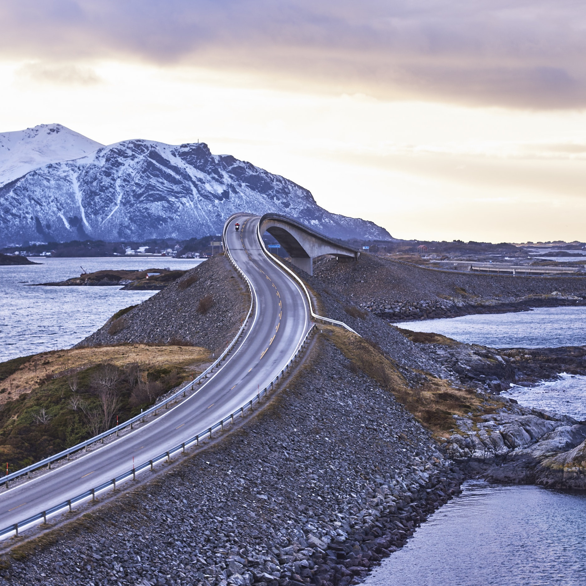 500px provided description: Where Do You Going [#street ,#sony ,#street photography ,#sonyalpha ,#a77 ,#bestofmarch]